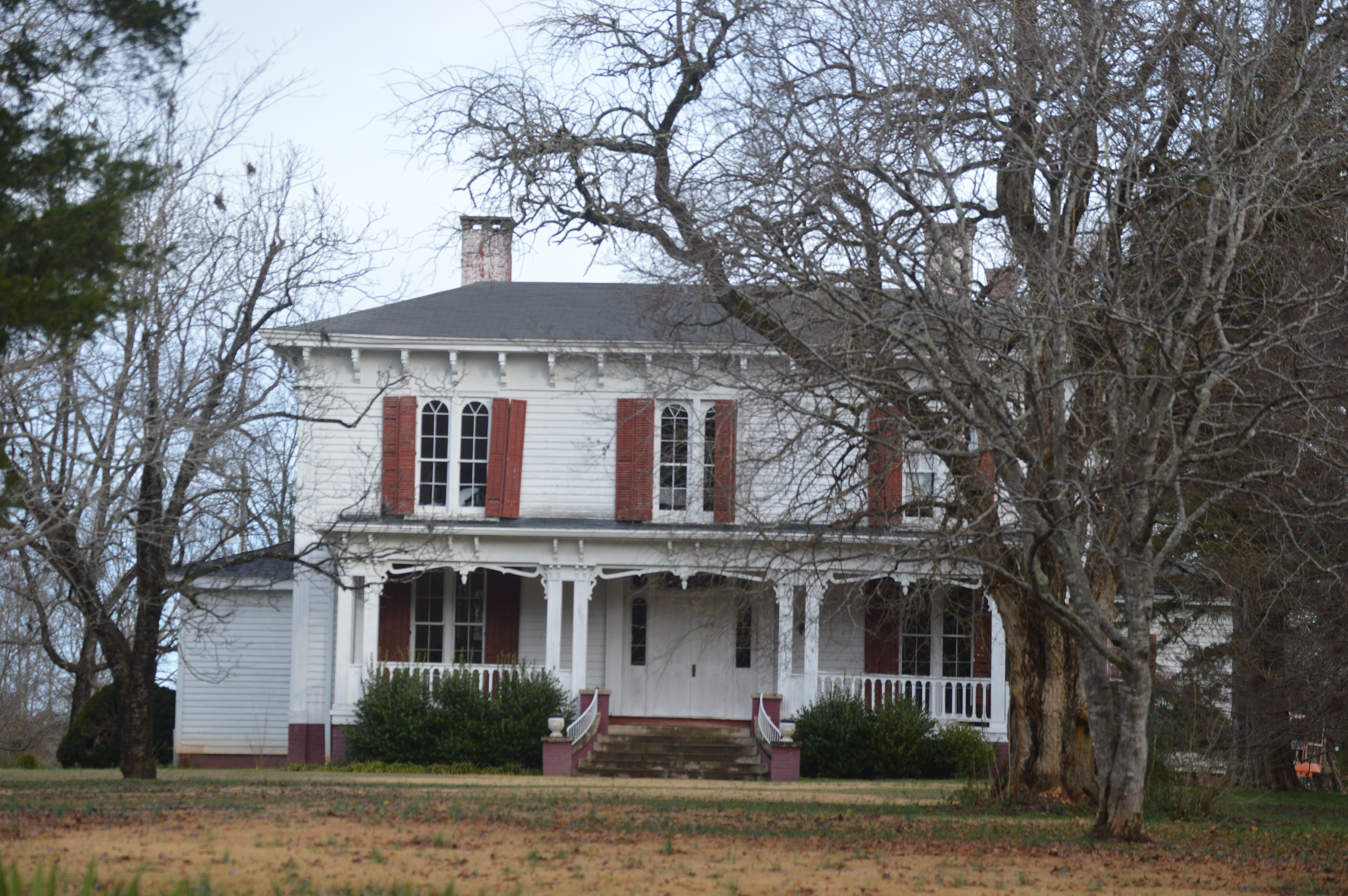 Front of the great house at Pool Rock Plantation, located on Pool Rock Road northeast of Williamsboro in Vance County, North Carolina, United States. Built in 1855, it is listed on the National Register of Historic Places.